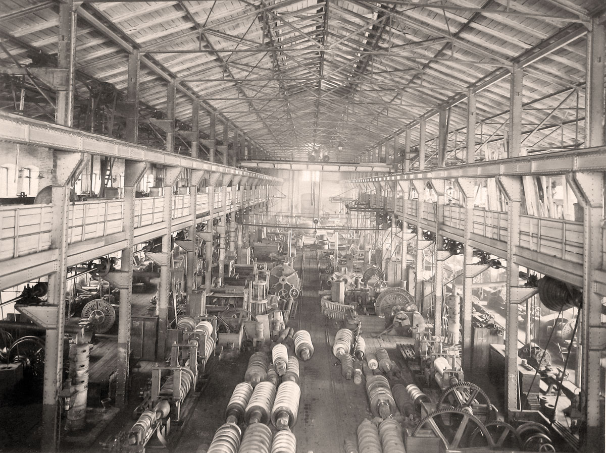 Machine-shop DMK (Dniprodzerzhynsk)